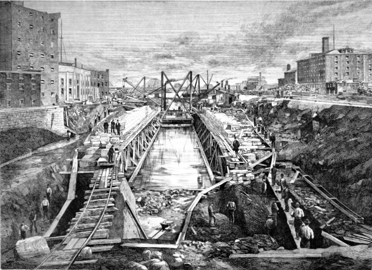 Print, Lachine Canal Enlargement: Work at the St. Gabriel Locks Under Messrs. Loss & McRae, Montreal, QC, Ink on paper - Photolithography - 40 x 55.3 cm